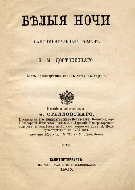 Title page of "White Nights" novell by Theodor M. Dostoyevsky, 1st edition as book